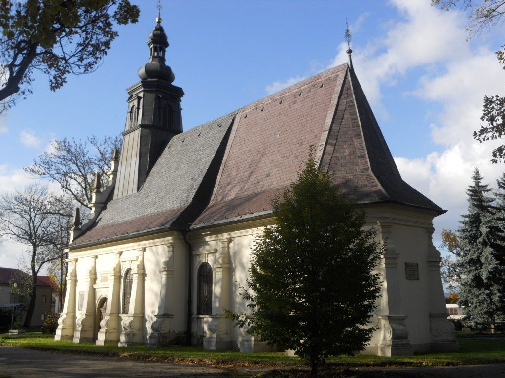 Jihlava, church of the Holy Spirit from SE (1572)